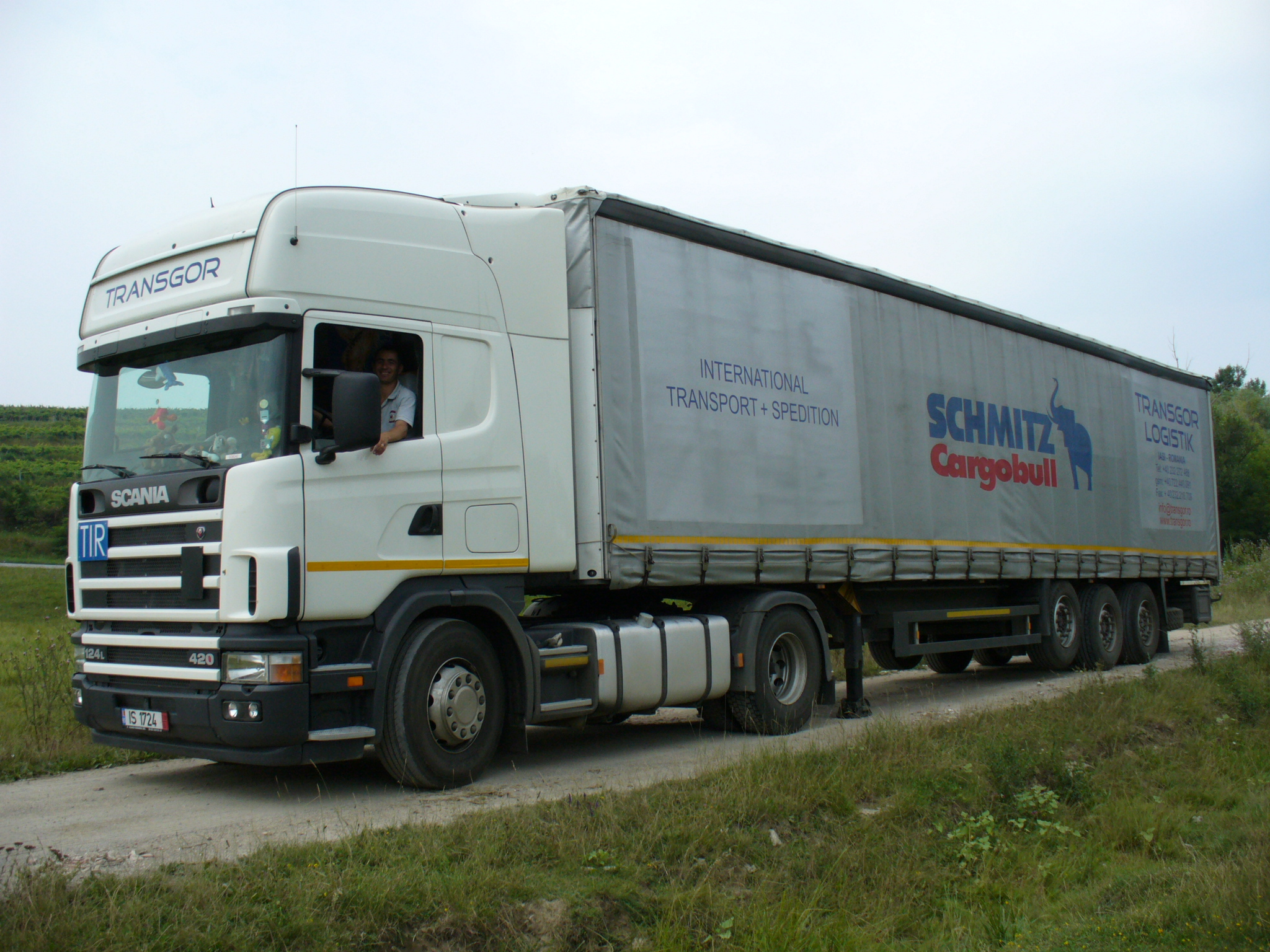 Semi-trailer Scania truck